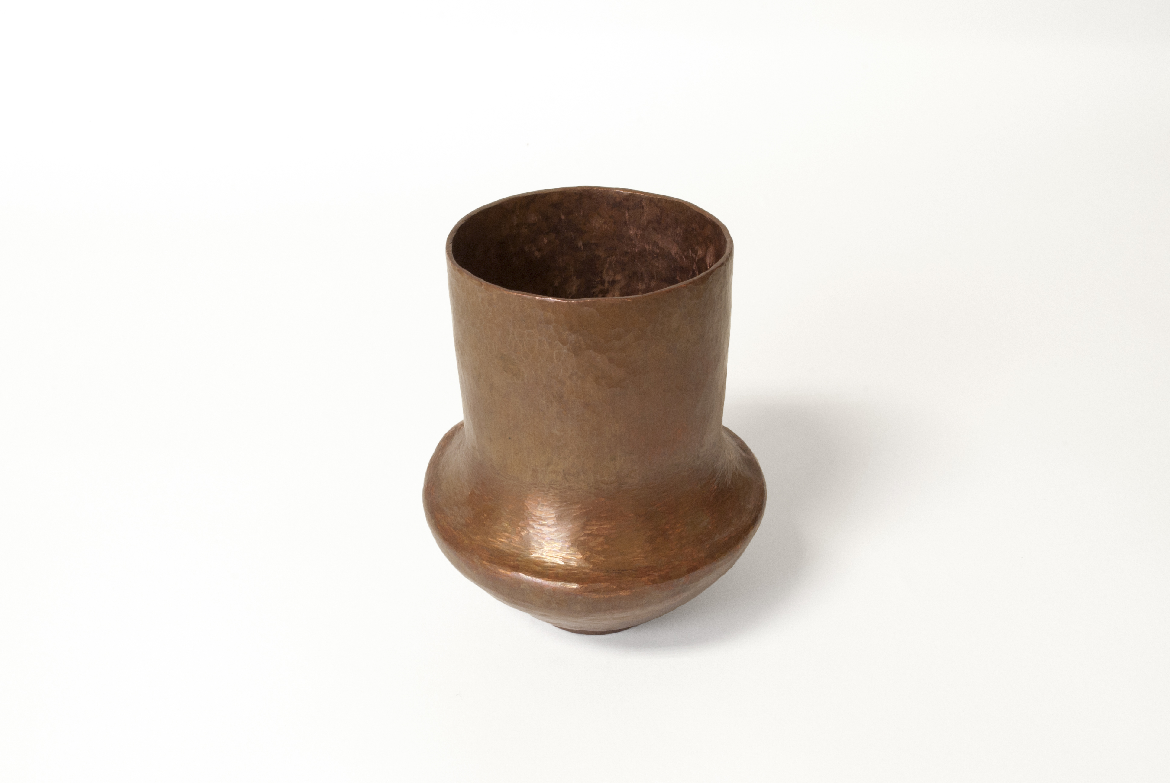 This is a copper vase formed using the process of raising. Made by Gabriel Craig, Copper, 7 x 3 x3 in, 2012.